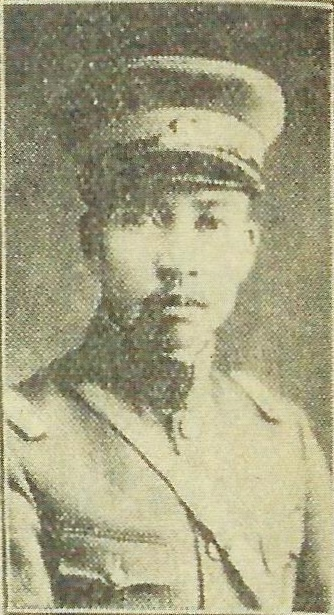 Zhang Wenzhu (Chang Wen-chuh) (1899 - ?)